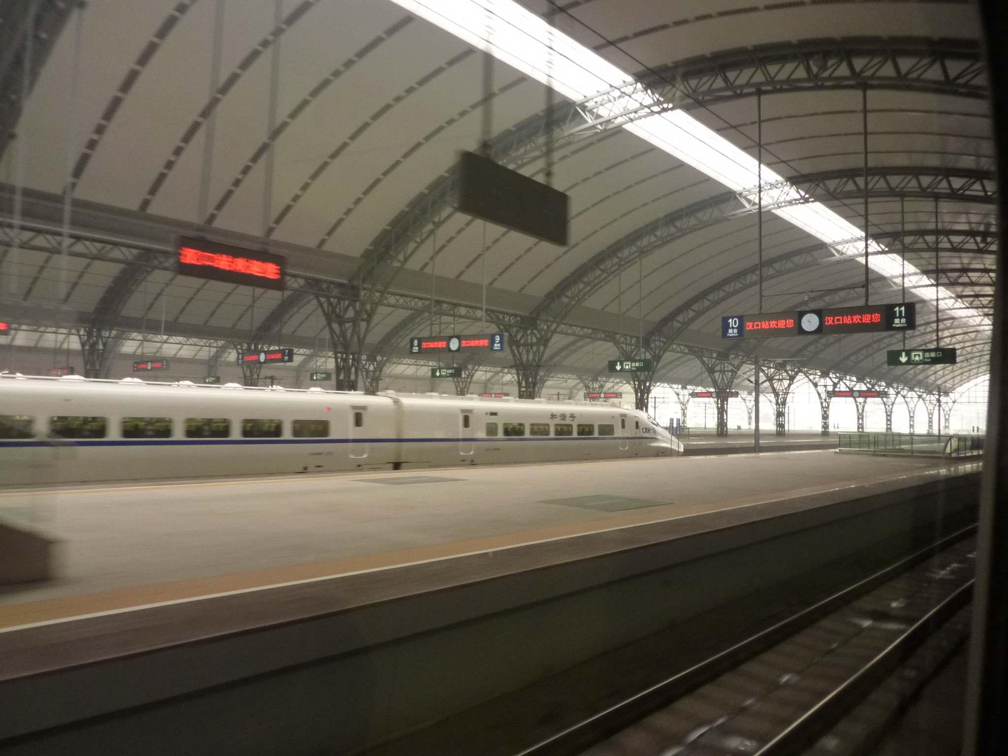 A platform of the Hankou Railway Station, seen form a passing train.